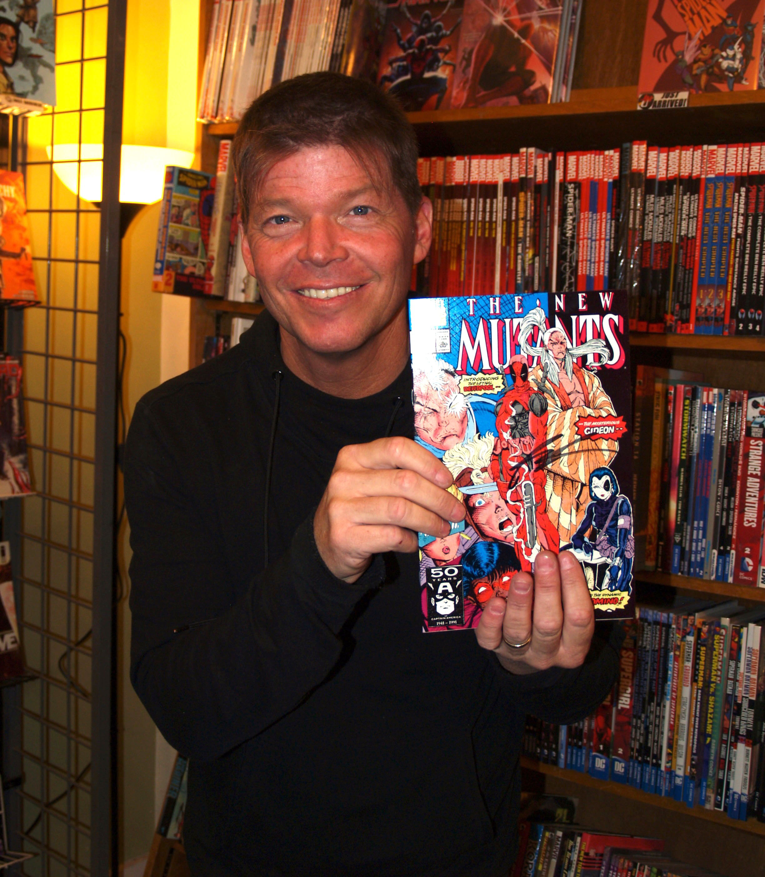 Comics creator Rob Liefeld at a book signing for Marvel True Believers: Deadpool #1 at JHU Comics in Manhattan on February 9, 2016. The book is a reprint of The New Mutants #98 (February 1991), in which the most popular character Liefeld created, Deadpool, first appeared. The signing was timed to coincide with the February 12, 2016 release of the feature film Deadpool, which features the character. In the photo, Liefeld is holding up the photographer's copy of New Mutants #98. This photo was created by Luigi Novi. It is not in the public domain, and use of this file outside of the licensing terms is a copyright violation.